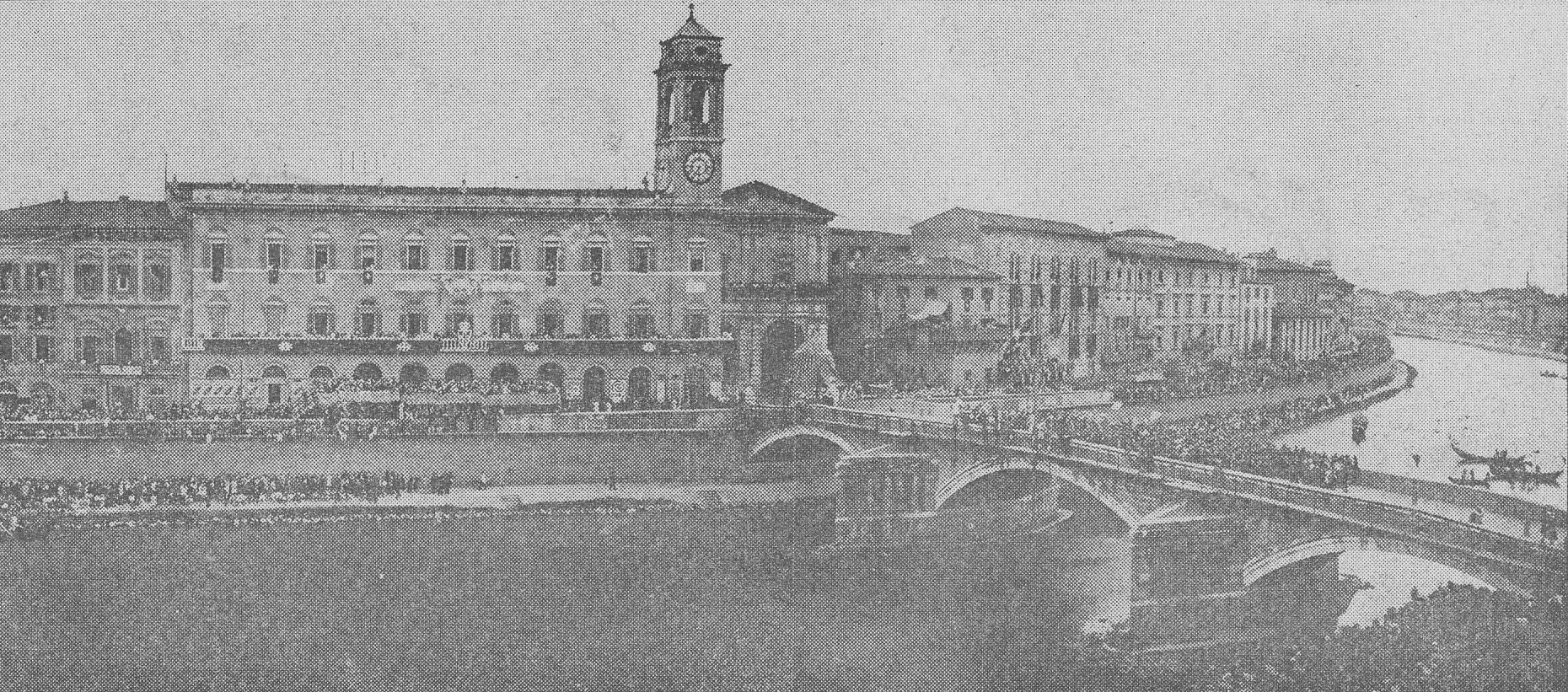 "Gioco del Ponte" (Bridge Game) in Pisa, Tuscany, Italy.